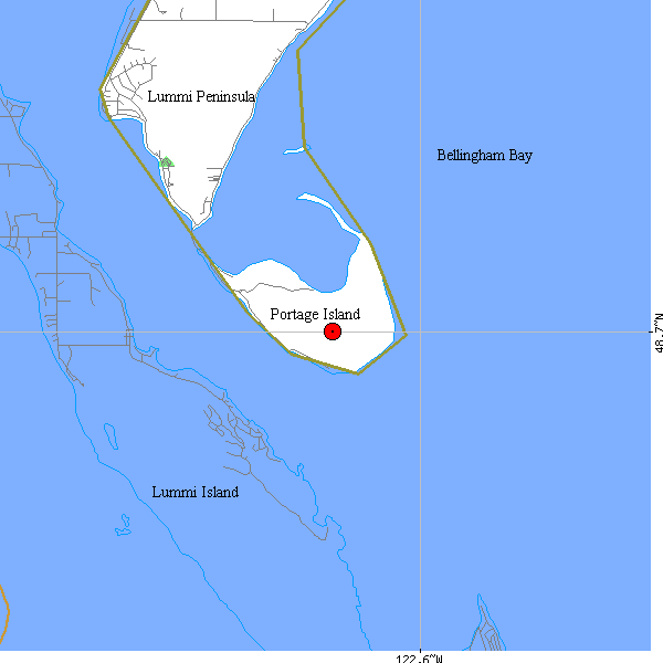 Map of Portage Island, in Bellingham Bay